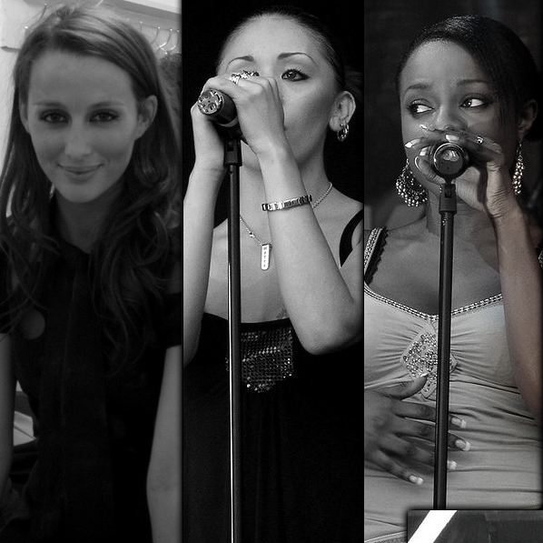 The founding members of the British girl groups Sugababes and Mutya Keisha Siobhan: Siobhán Donaghy, Mutya Buena und Keisha Buchanan.